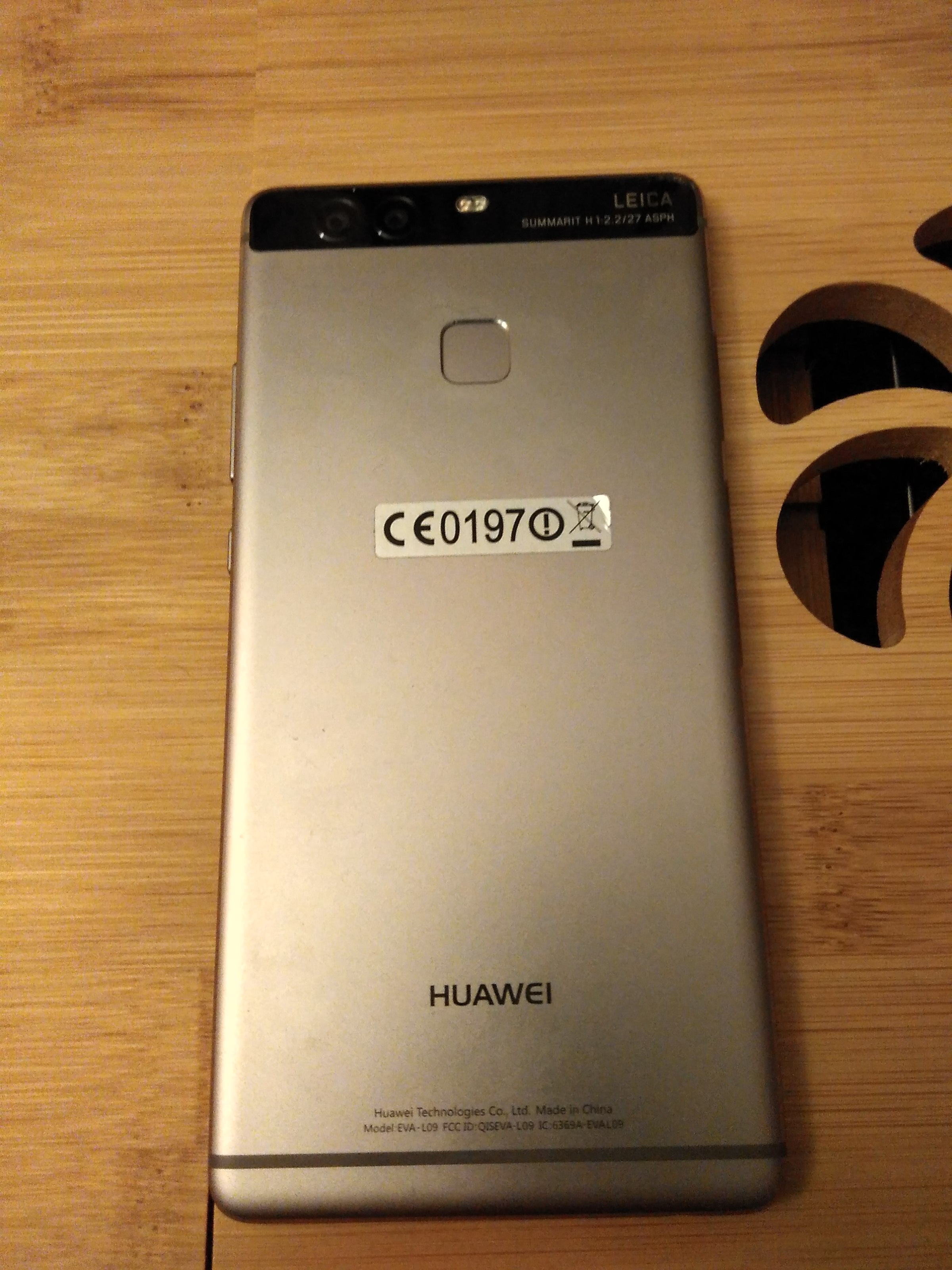 back view of Huawei P9